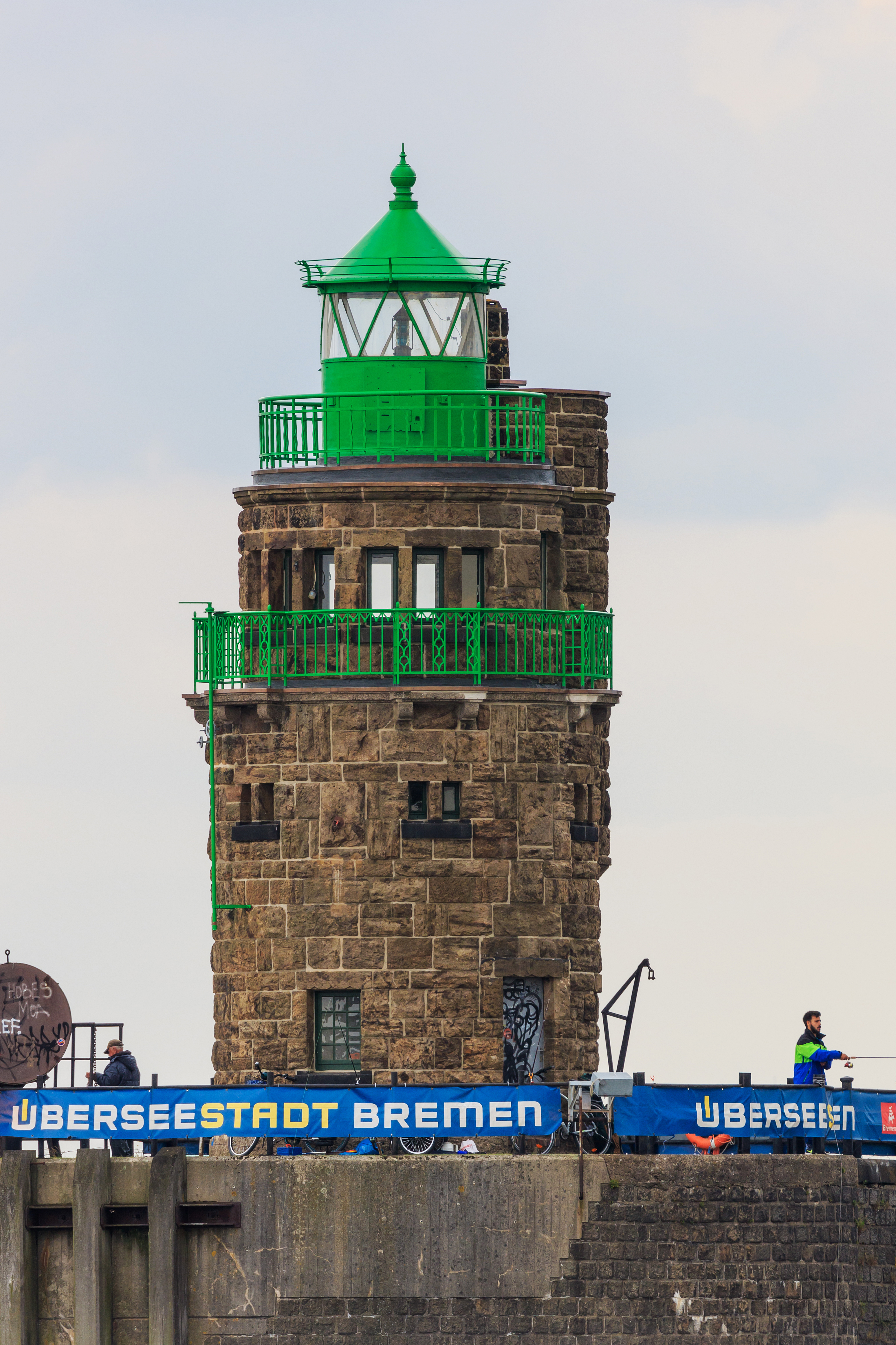 The Weser port in Bremen, Germany